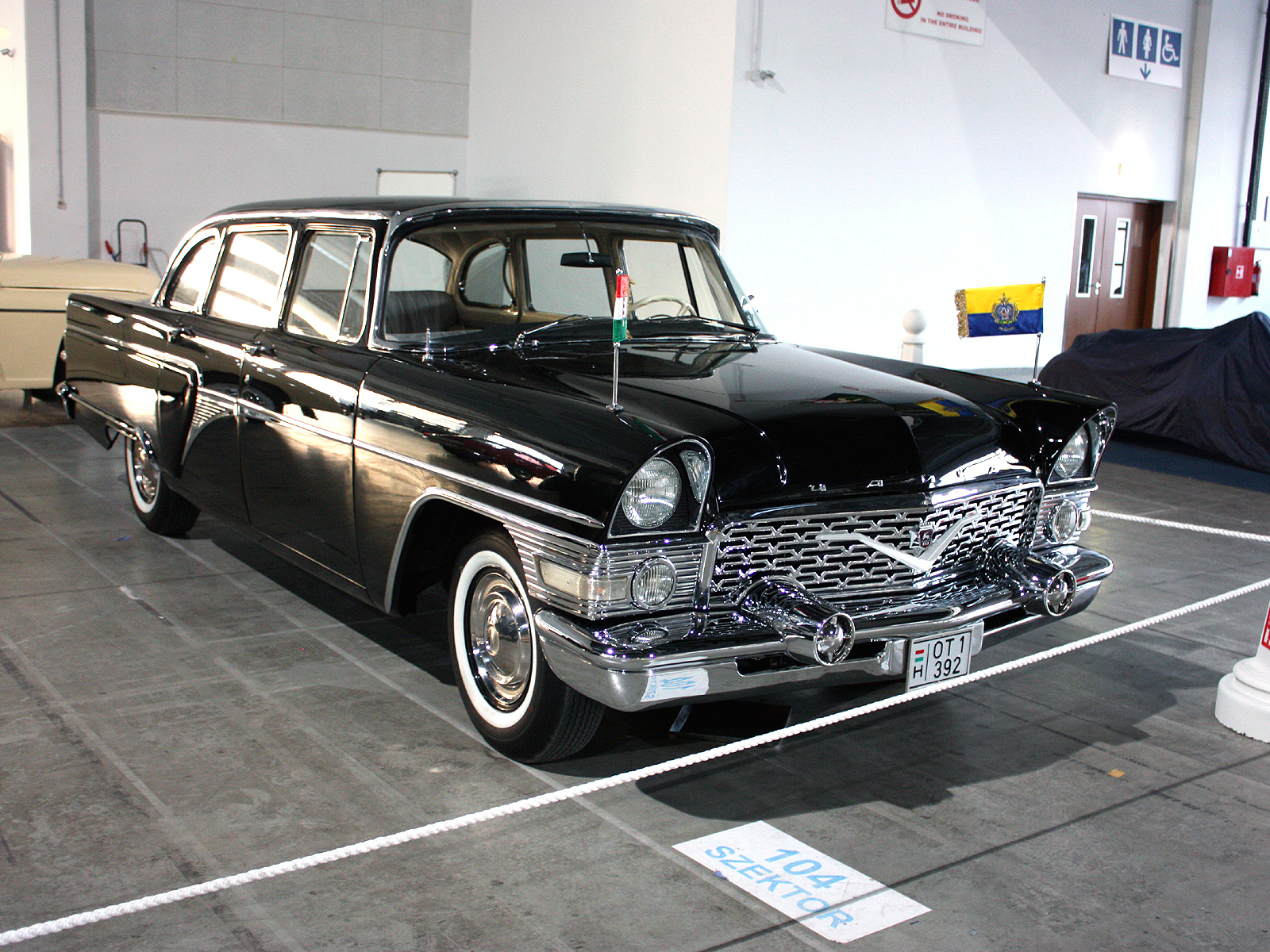 GAZ-13 Chaika at Oldtimer Show, 2008